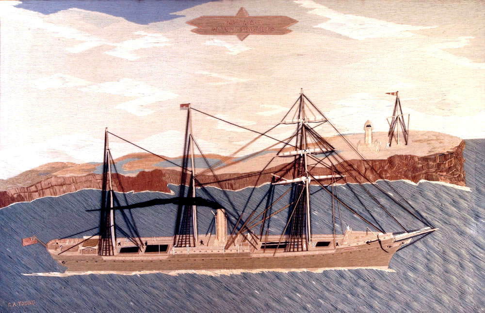 Australasian Off South Sydney Heads. Sailors Wool Work of the Ship. Wool on Canvas. Circa 1888. 24½ Inches x 37¼ Inches. 29⅞ Inches x 42¾ Inches Framed. Signed LL: C.A. YOUNG.